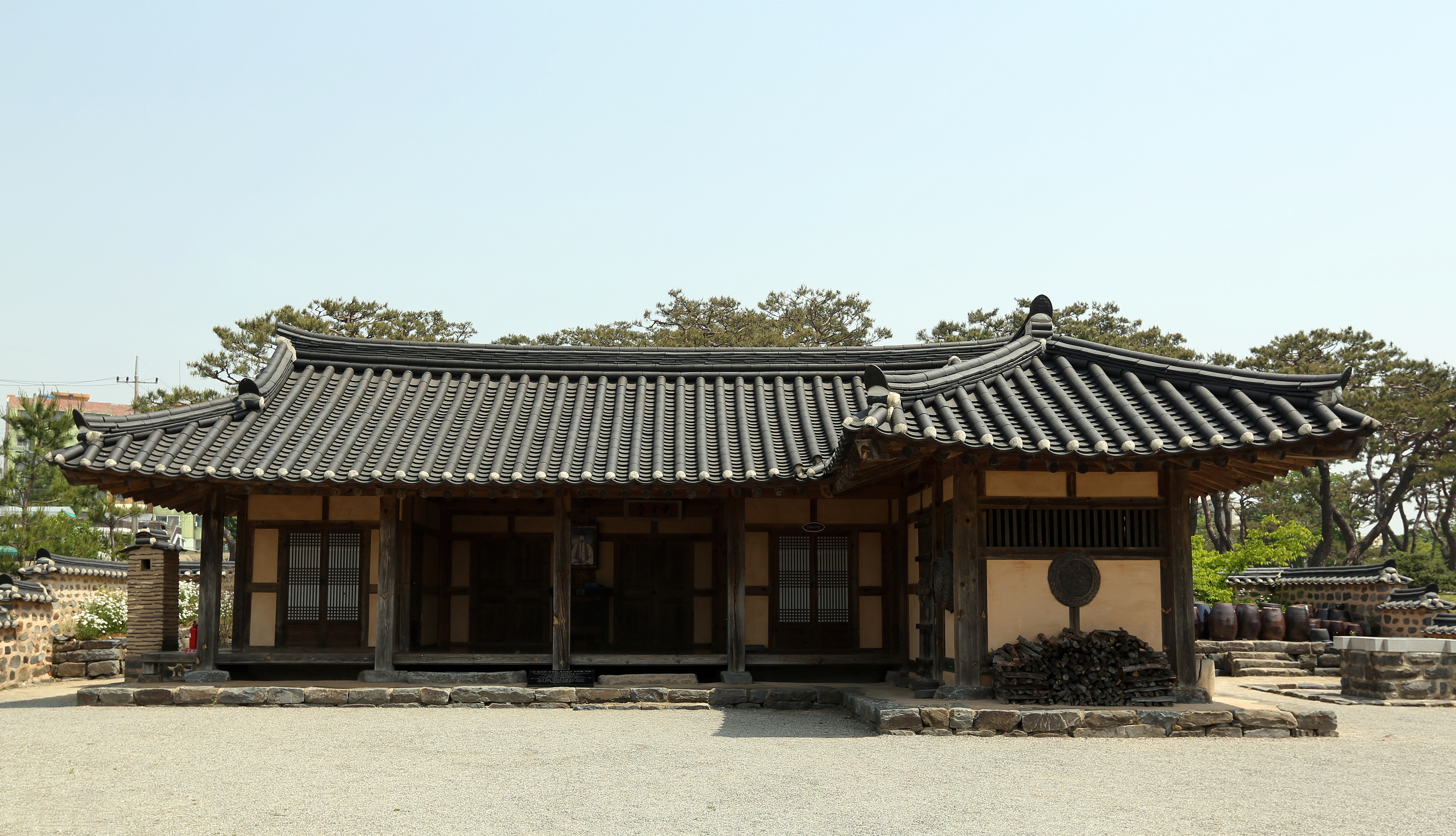 The Shrine of Solmoe Birthplace of Saint Andrea Kim Dae-gun